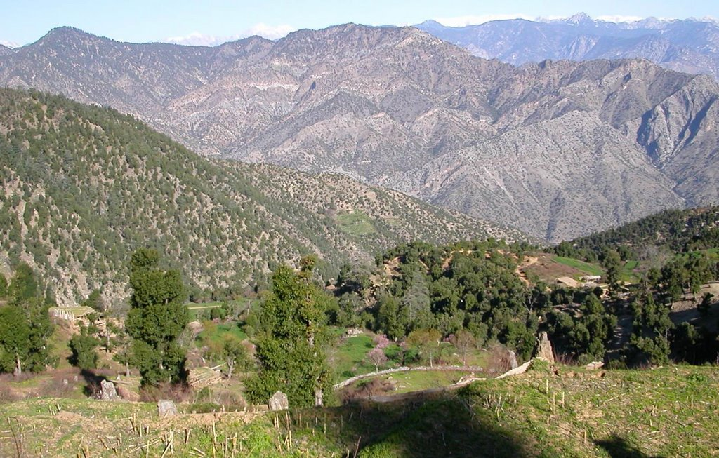 Chichal, Korengal Valley, Kunar Province, Afghanistan.